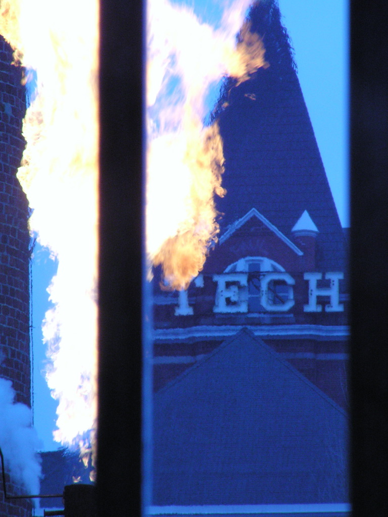 Description: A picture of the whistle blowing at Georgia Tech, with a fuel burn off in progress. Tech Tower is visible in the background. on flickr